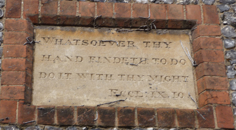 A plaque in the external wall of Sir William Borlase's Grammar School, Marlow